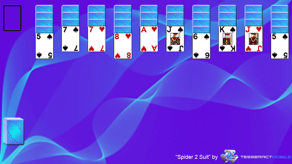 This is a screenshot of the solitaire game Spider 2 Suit layout.